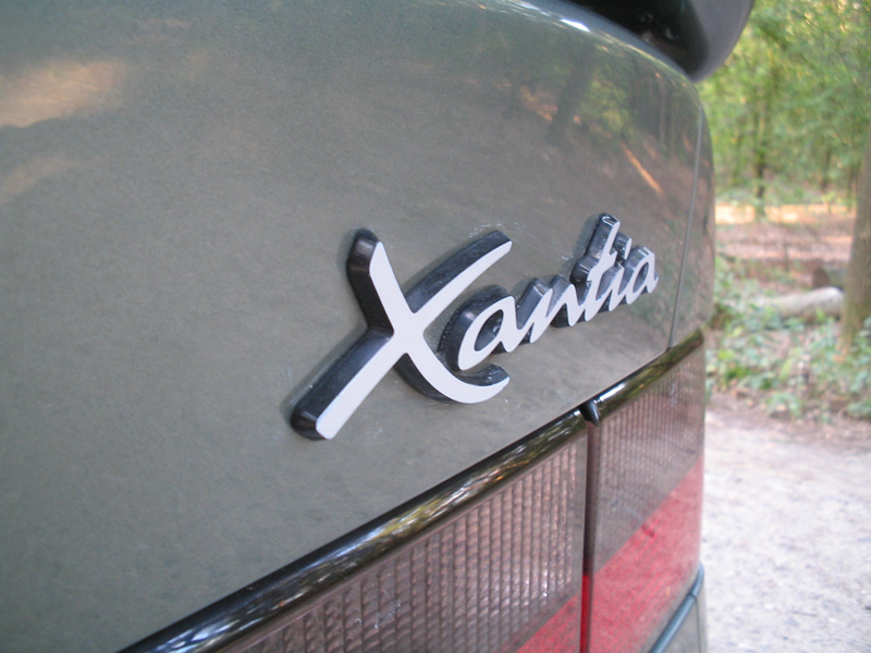 The Xantia logo